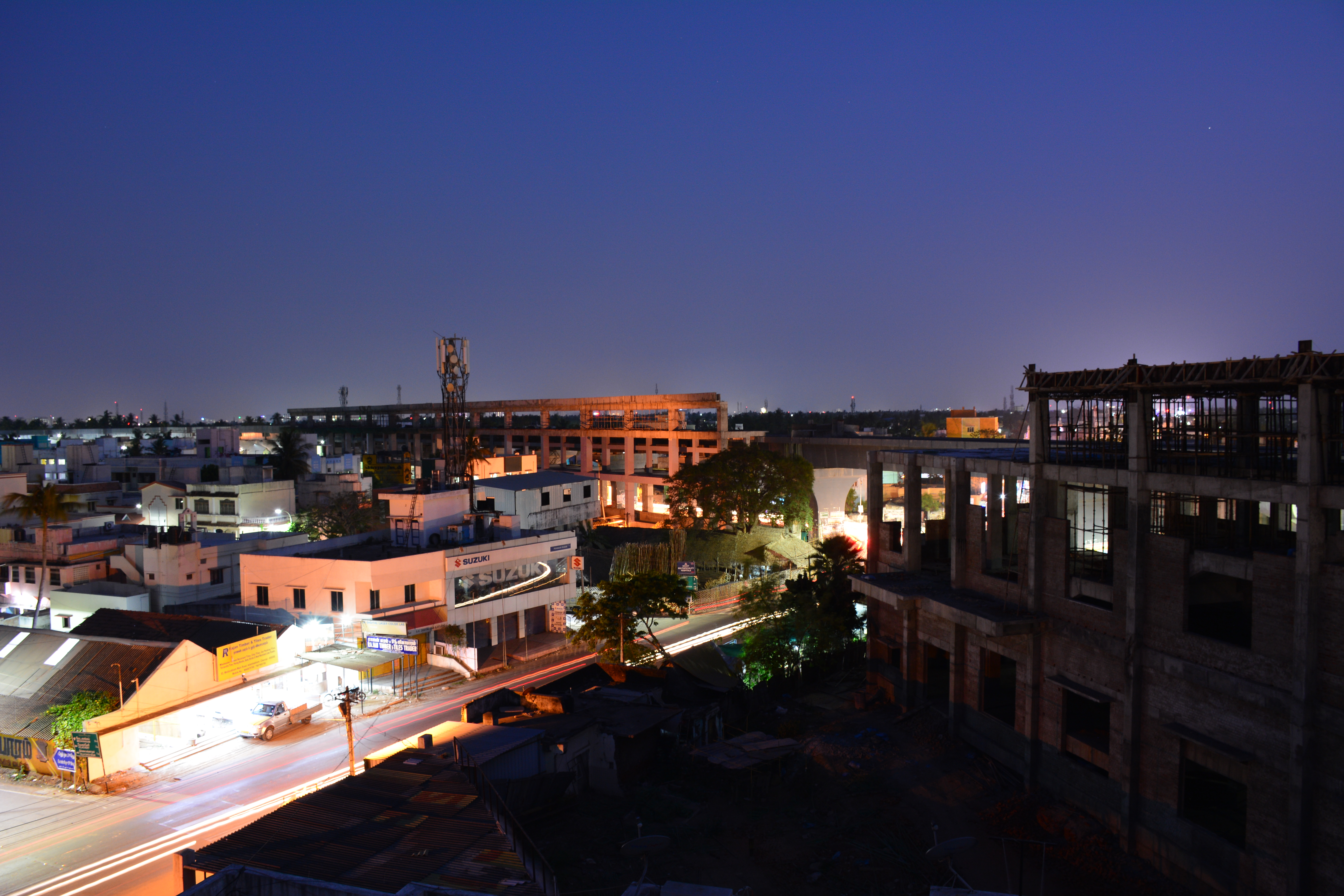 A view of the Adambakkam Railway Station as seen from my terrace.